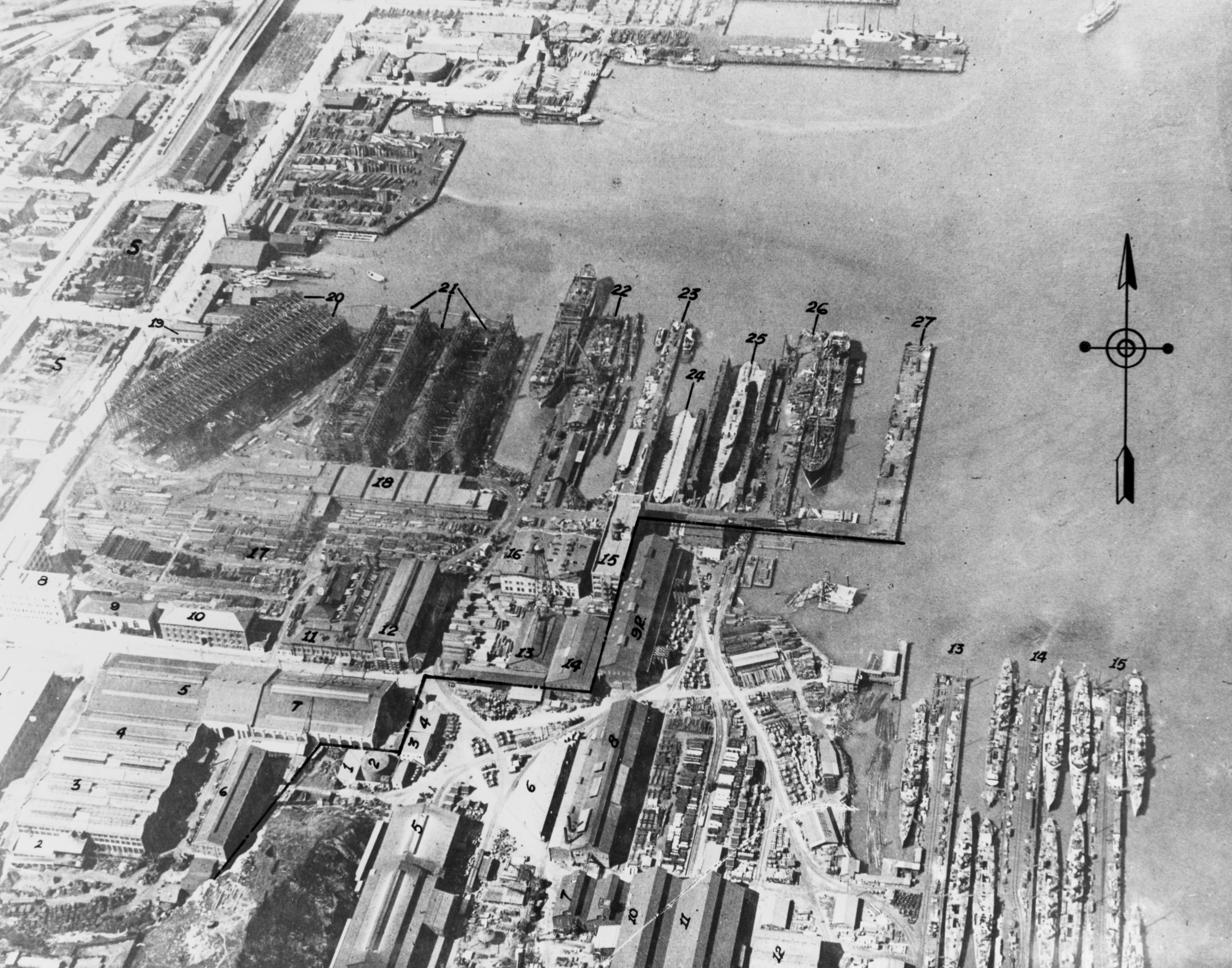 Aerial view of the Union Iron Works, San Francisco, California (USA), photographed during World War I, with four-piper destroyers under construction at the Risdon Iron Works in the lower right. Four submarines and one destroyer hull in dry-dock are at the piers in the center, along with some large merchant ships. Risdon, part of Union, is to the lower right of the ink line. 1: Cafeteria, 2: Store room, 3: Iron Foundry, 4: Brass Foundry, 5: Machine shop, 6: Pattern shop, 7: Erecting machine shop, 8: Administration building, 9: Power house, 10: office building, Government offices, 11: Blacksmith shop, 12: Bioler shop, 13: Joiner shop, 14: Joiner shop, annex with oil storage tanks underneath, 15: Warehouse and office building, 16: Pipe and copper shop, 17: Steel storage, 18: Plate shop, 19: Gate house, 20: Building slips 4&5, 21: Building slips 1.2 & 3, 22: Wharf #2, 23: Wharf #3, 24: Floating dock, capacity 2000 tons, 25: Floating dock, capacity 6500 tons, 26: Wharf #4, 27: Wharf #5, S: Storage space 2: Risdon Plant shown south and east of red lines: 1: Copper storage, 2: Oil tank, 3: Office building, 4: Office building, 5: Yarrow boiler shop, 6: Warehouse, 7: Power house, 8: Blacksmith shop, 9: Storehouse, 10: Sheet metal shop, 11: Sheet metal shop, 12: Marine machine shop, 13: Wharves, 14: Wharves, 15: Wharves.